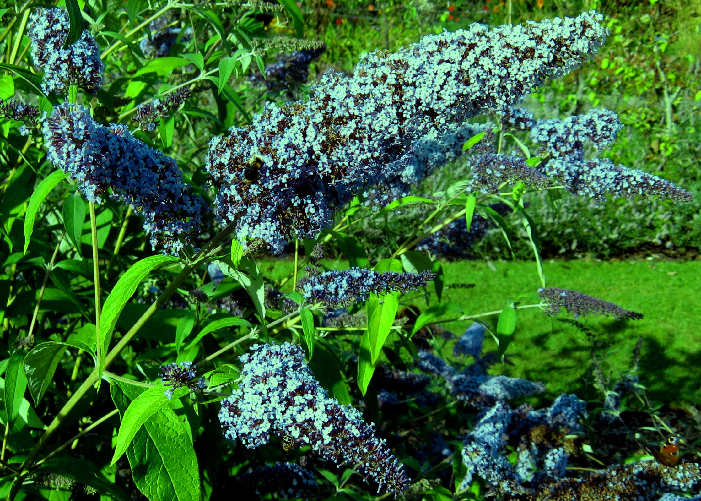 Photo of Buddleja cultivar taken at Longstock Park Nursery, UK, NCCPG national collection holder